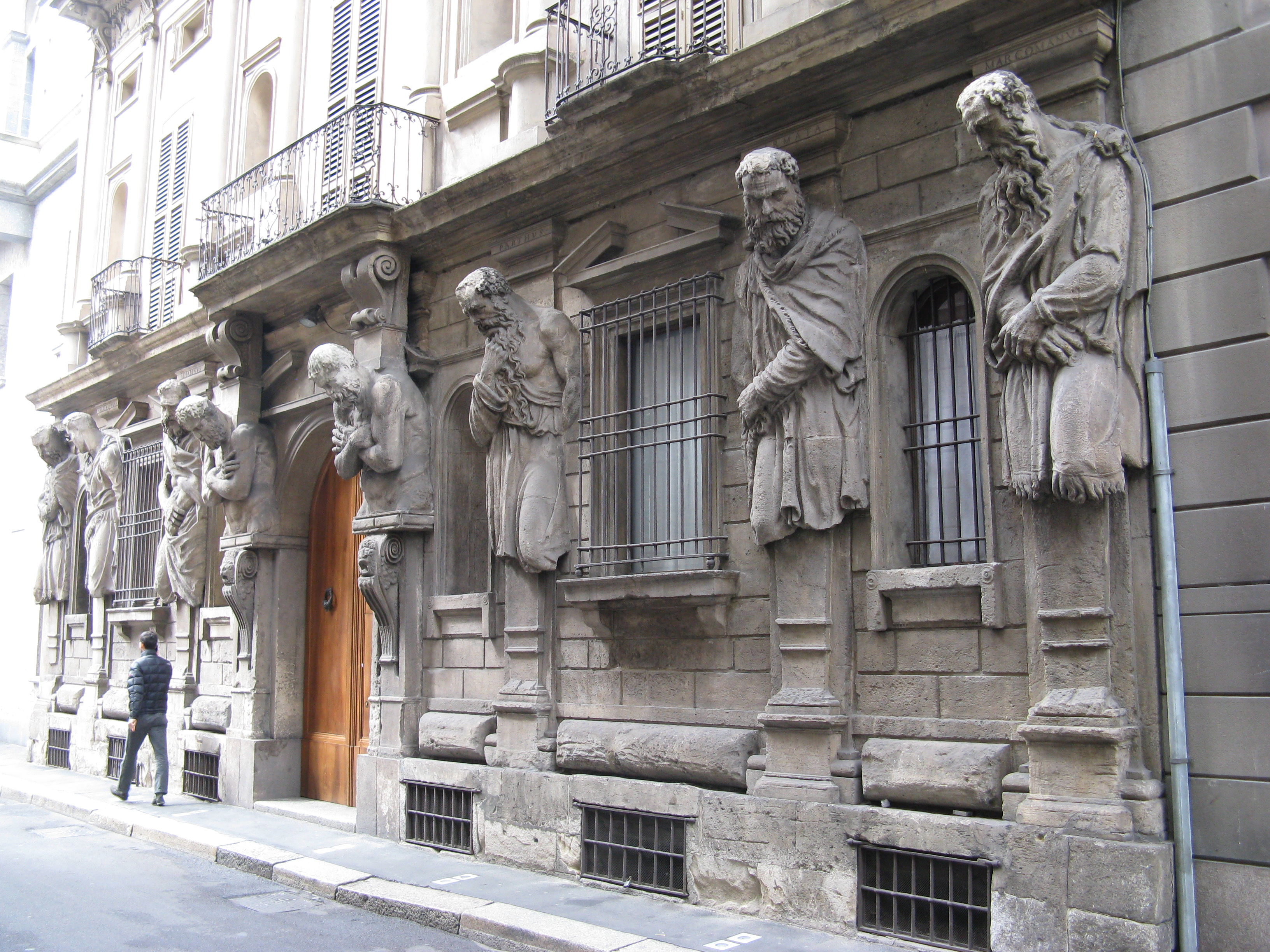 Telamons at Casa degli Omenoni (Milan)